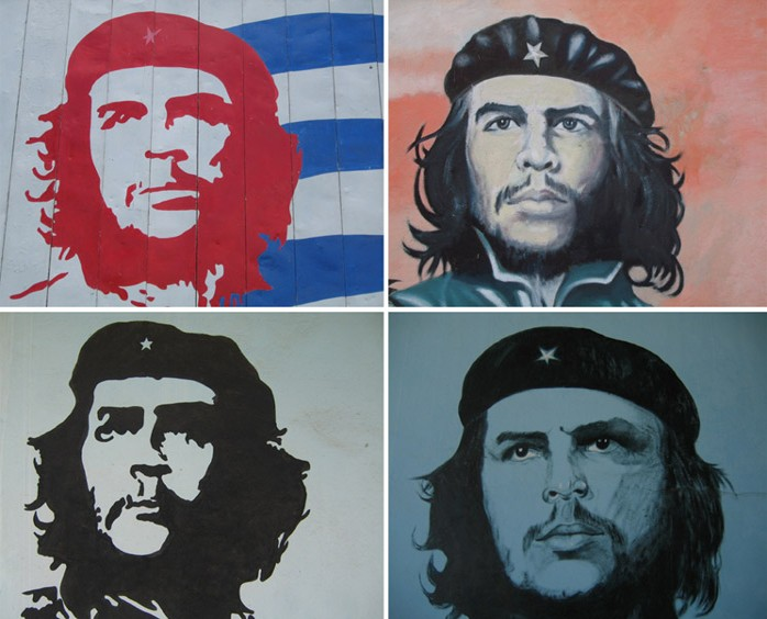 Four Che faces/murals (of Guerrillero Heroico) found on public walls throughout Havana, Cuba.